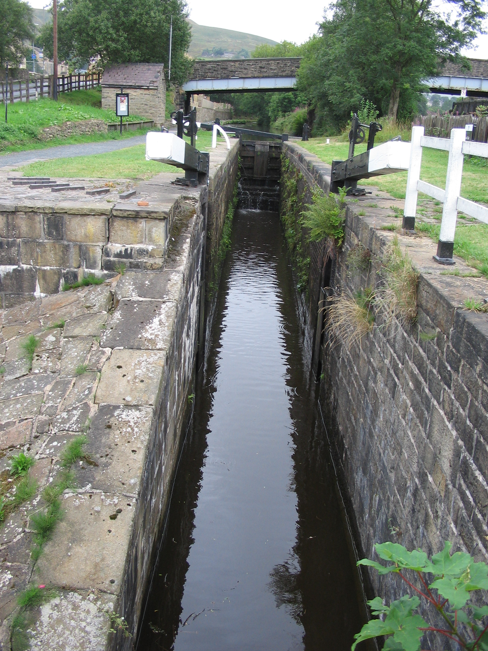 lock of Huddersfield Narrow Canal